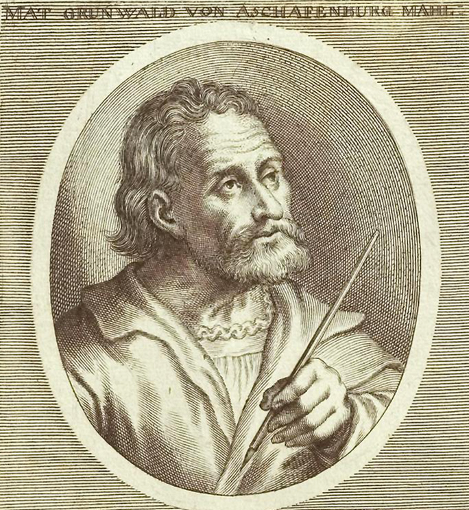 Engraving according to the Half length portrait of a man with a pinfeather looking up, therefore according to the most recent research probably not an image of Grünewald but rather of a study of the writing John the Evangelist on Patmos